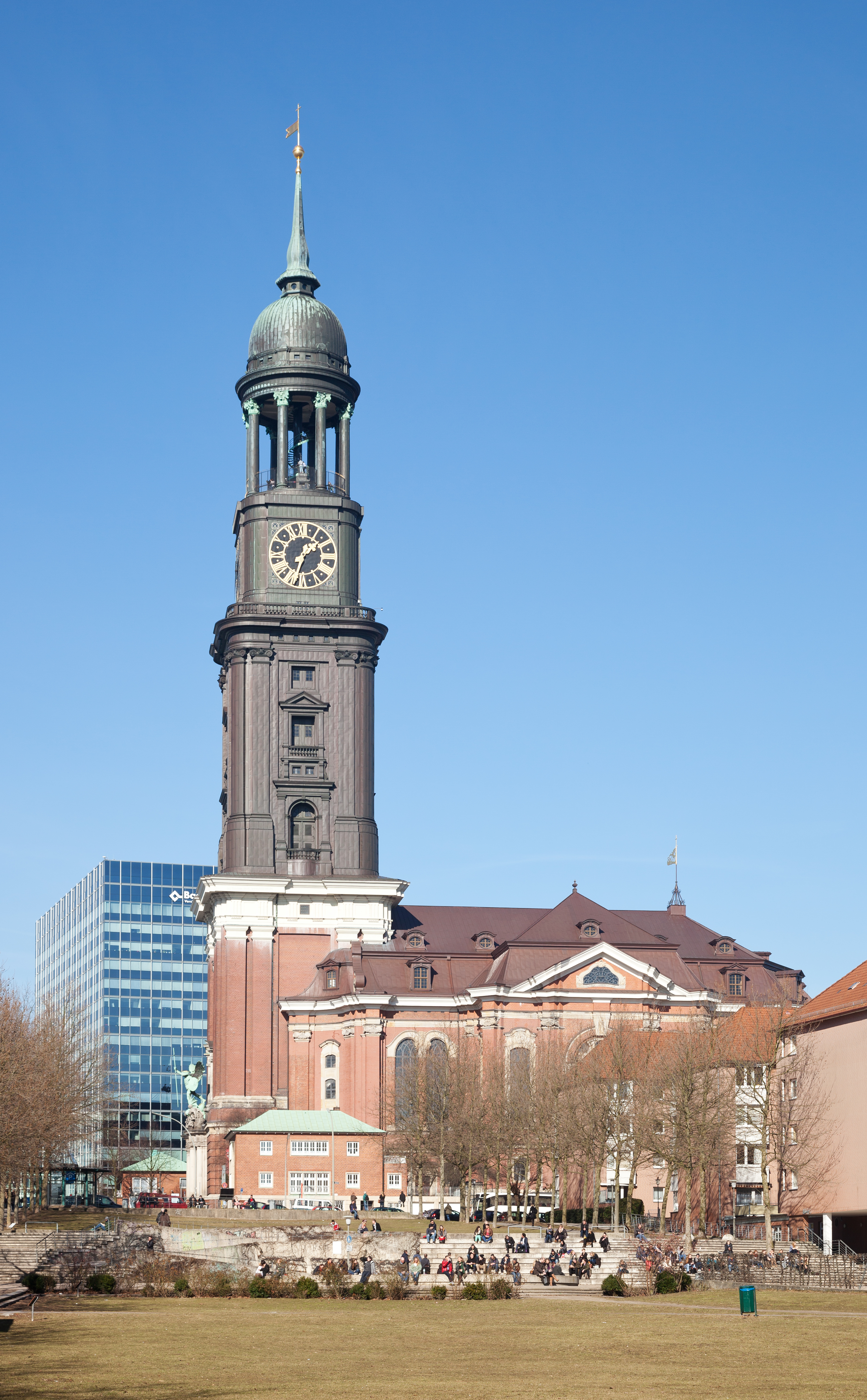 St. Michaelis Church in Hamburg, Germany